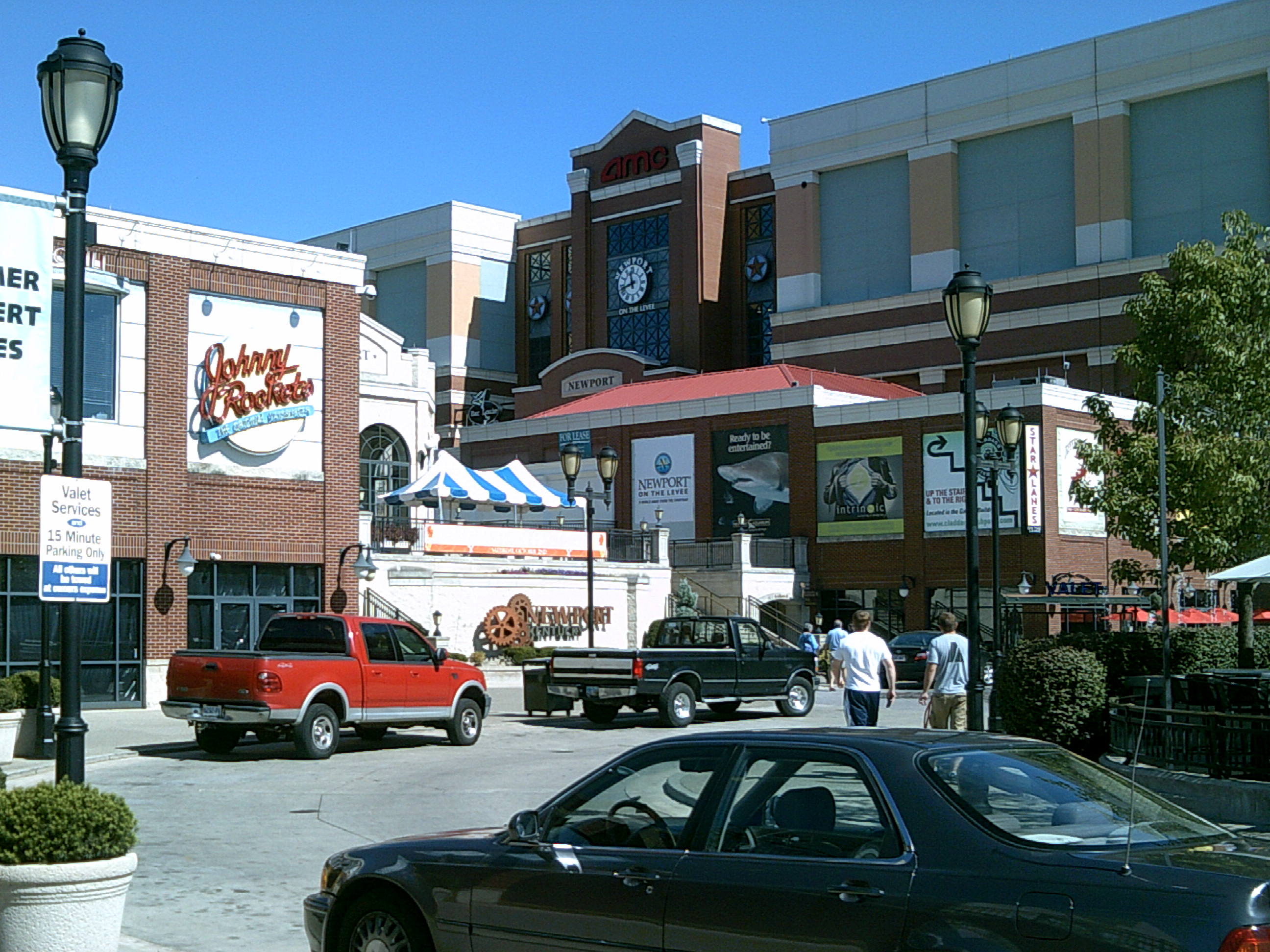 View of Newport on the Levee from the street level entrance. Logos of Johnny Rocket and AMC movie theater visible.